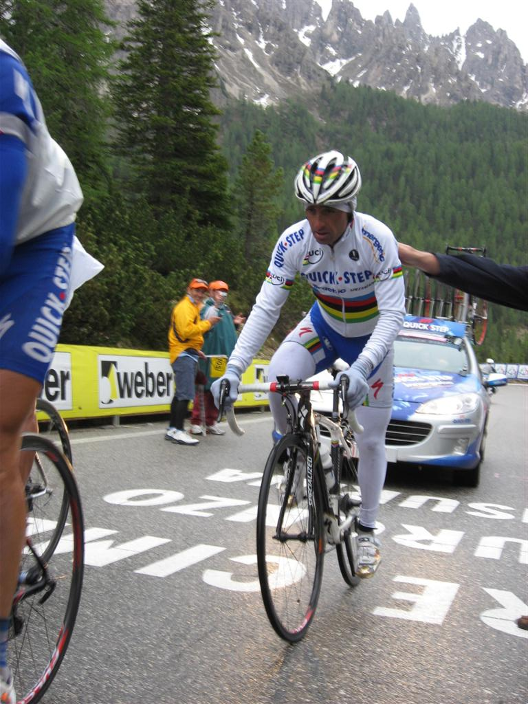 Paolo Bettini 2007